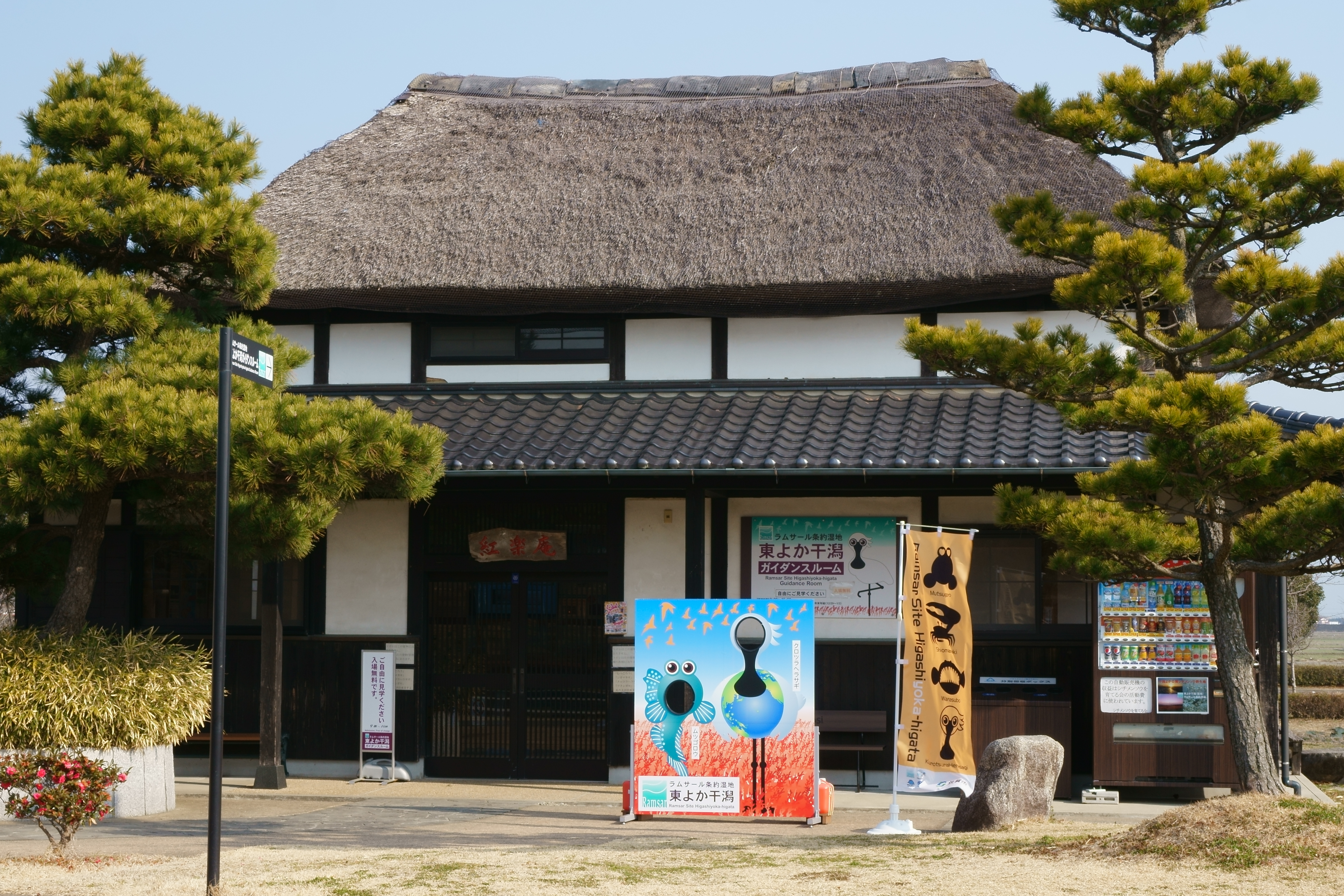 Korakuan in Higatayoka Park. Higashiyoka-higata(tidal flat)'s guidance room is within here.